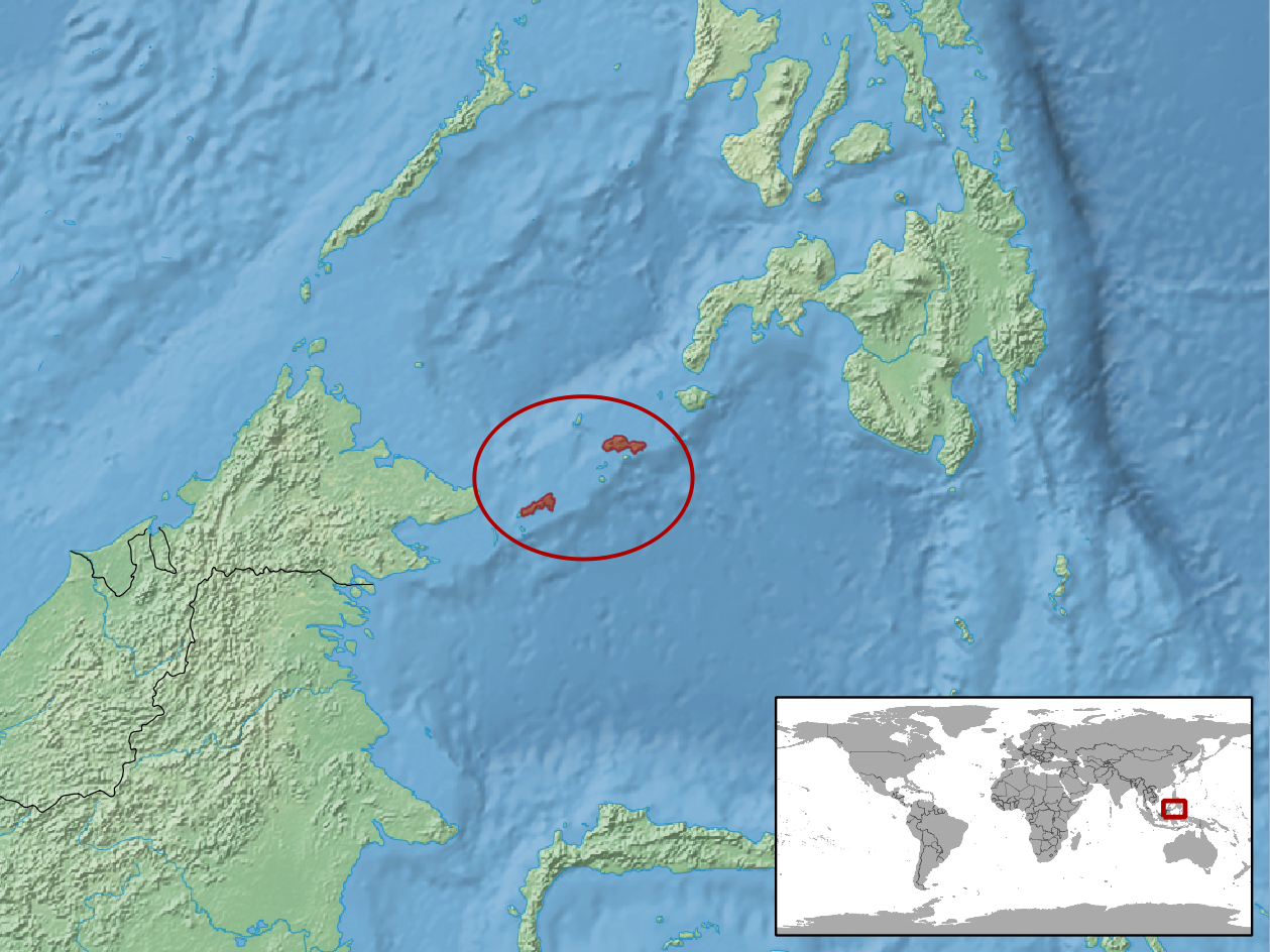 geographic distribution of Calamaria joloensis (Native: Philippines)